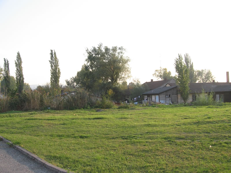 Depresija quarter in Novi Sad, Serbia.